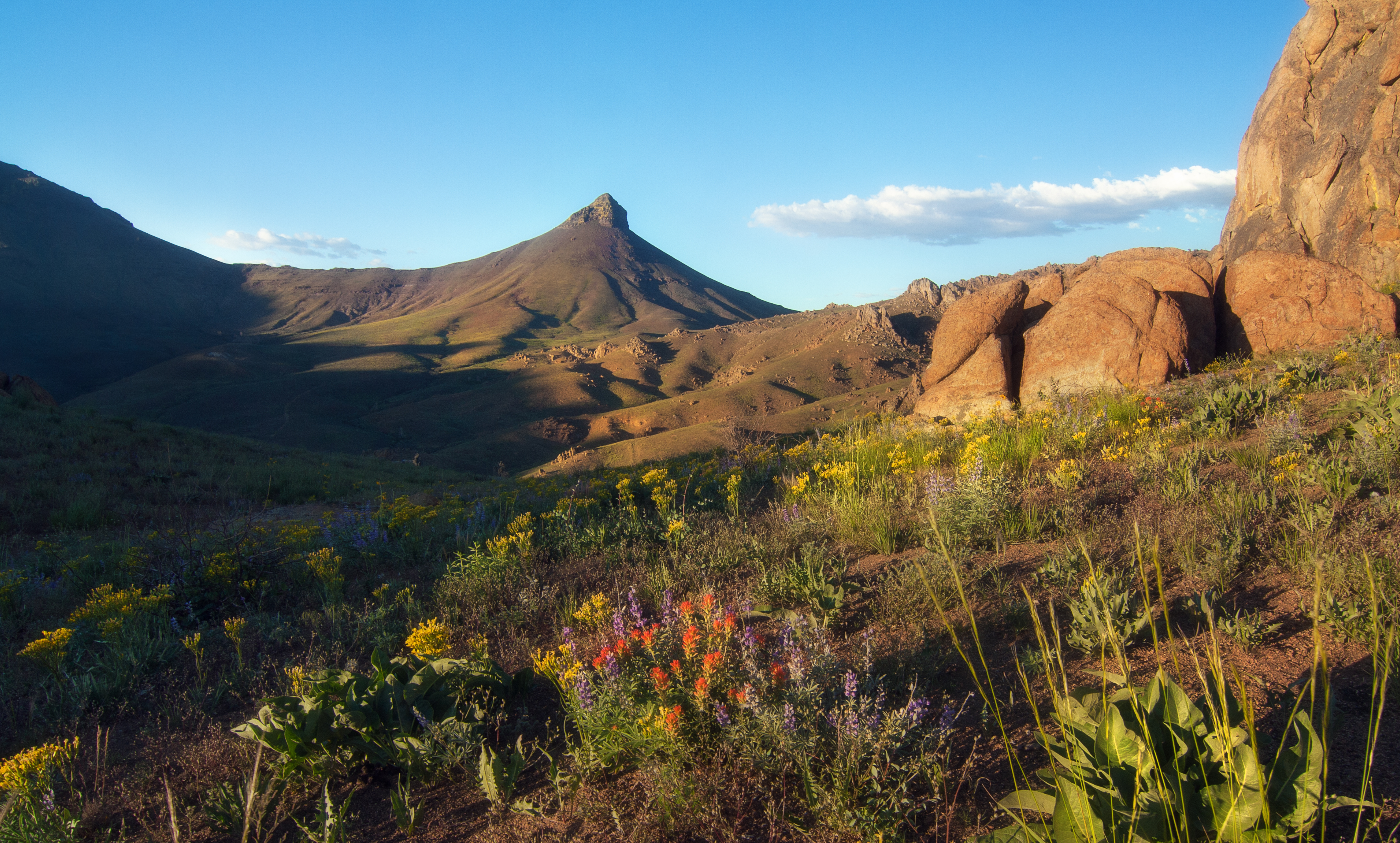 Image: Disaster Peak and wildflowers Location: Disaster Peak Wilderness Study Area BLM District: Winnemucca District Photographer: Jamey Pyles